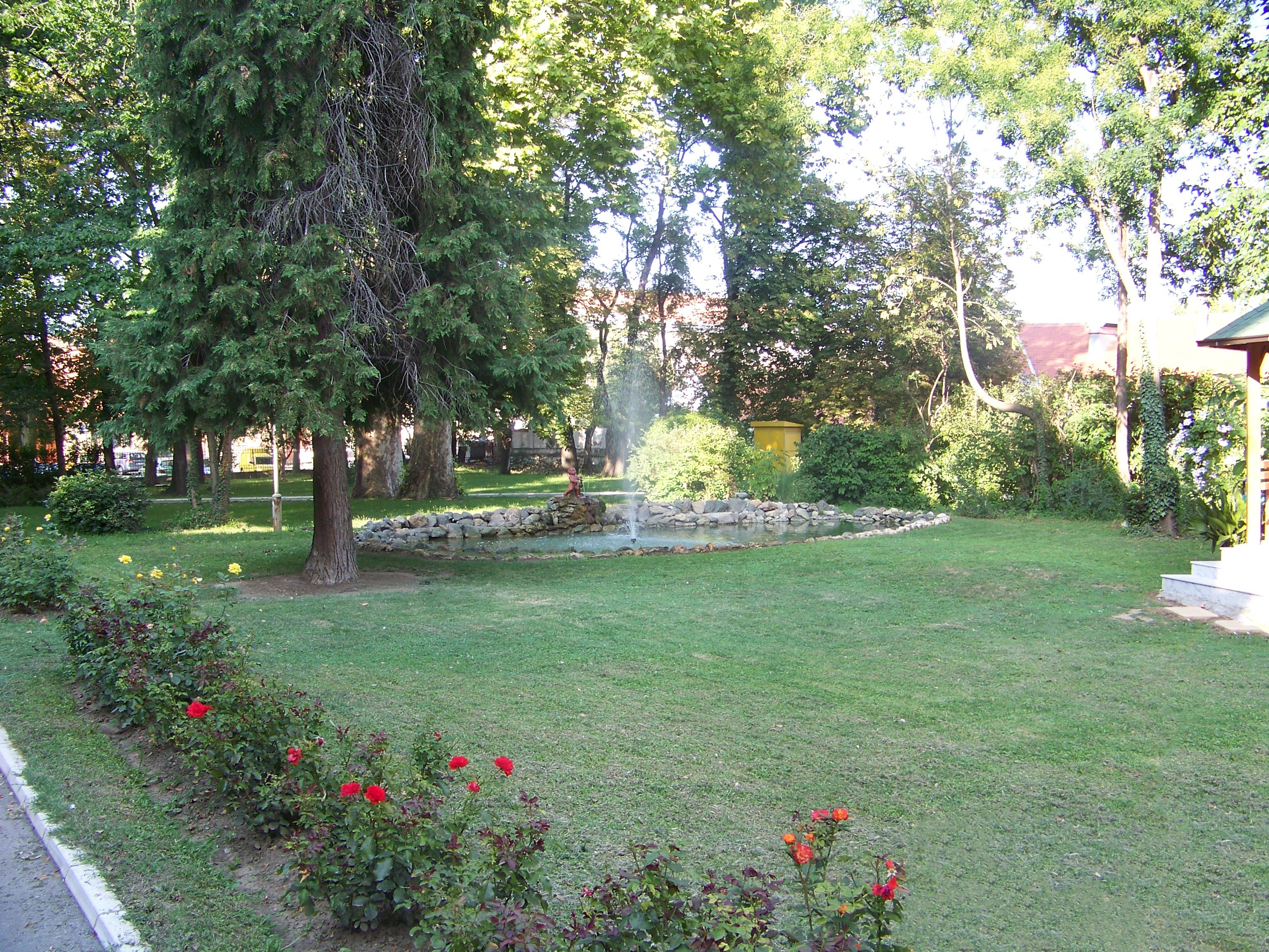 Sremski Karlovci, Patriarchate garden